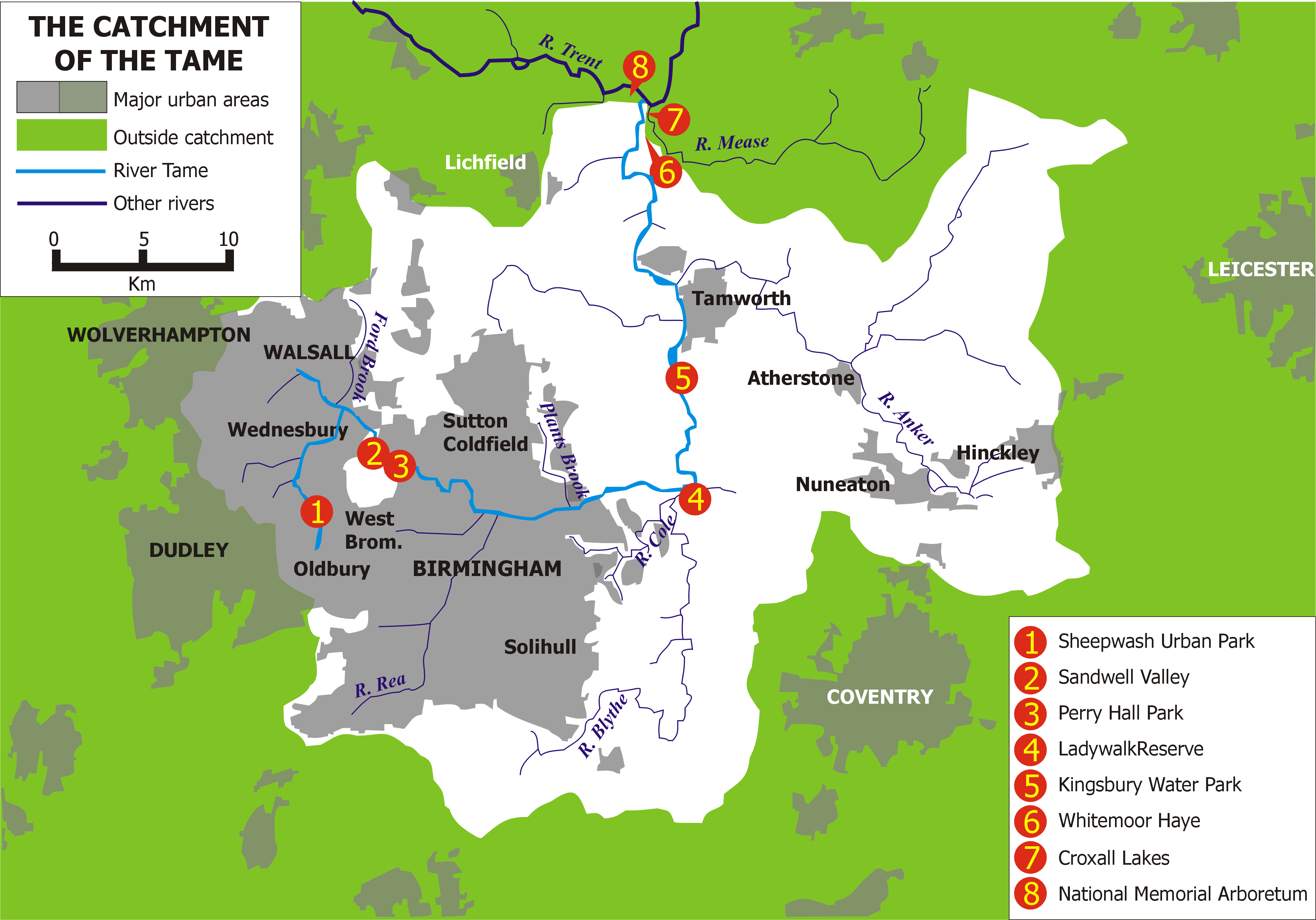 A sketch map of the Tame catchment area, showing major towns, cities and visitor attractions along the river. Exported from own CorelDraw vector drawing.